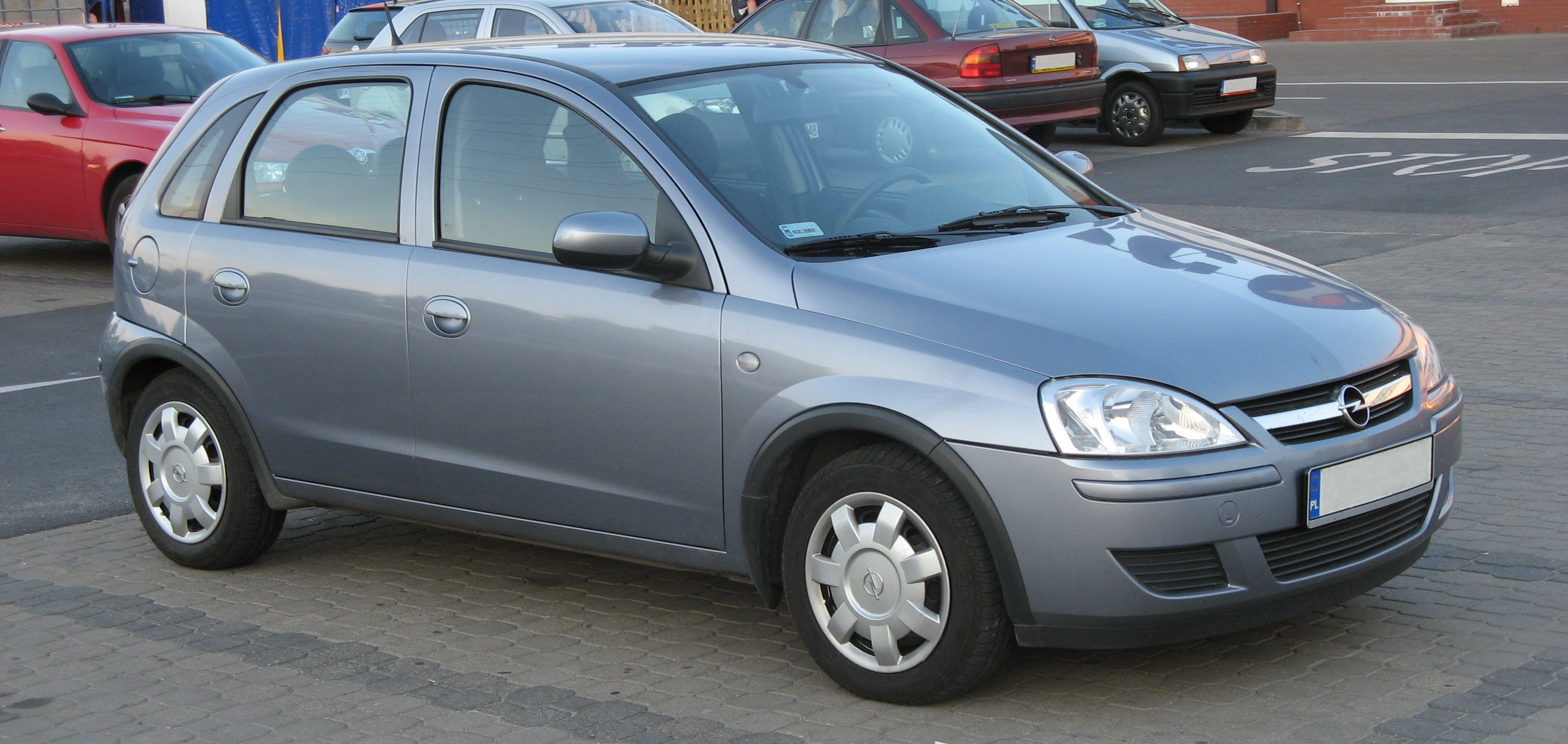 Opel Corsa C, 5-door, champagne, photographed in Warsaw, Poland